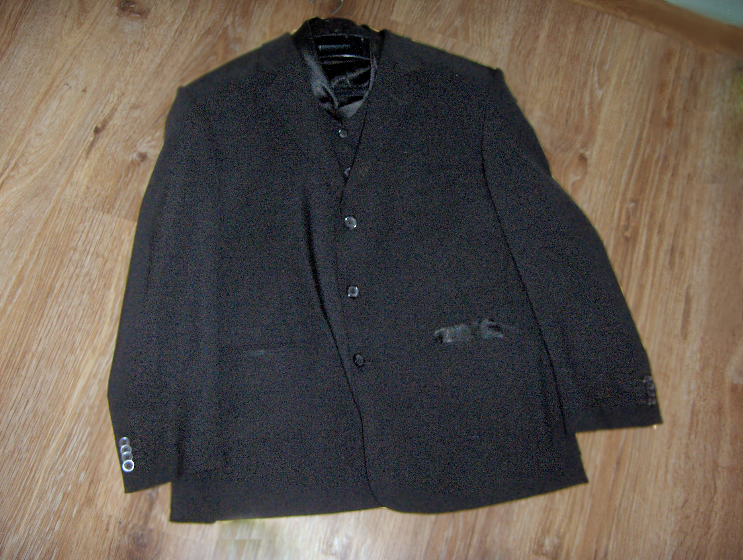 Photo of jacket